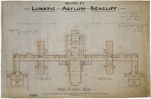 Plan of Seacliff Hospital, New Zealand, 120 years old, thus in public domain. Creator of this document, Robert Lawson, died in 1902.